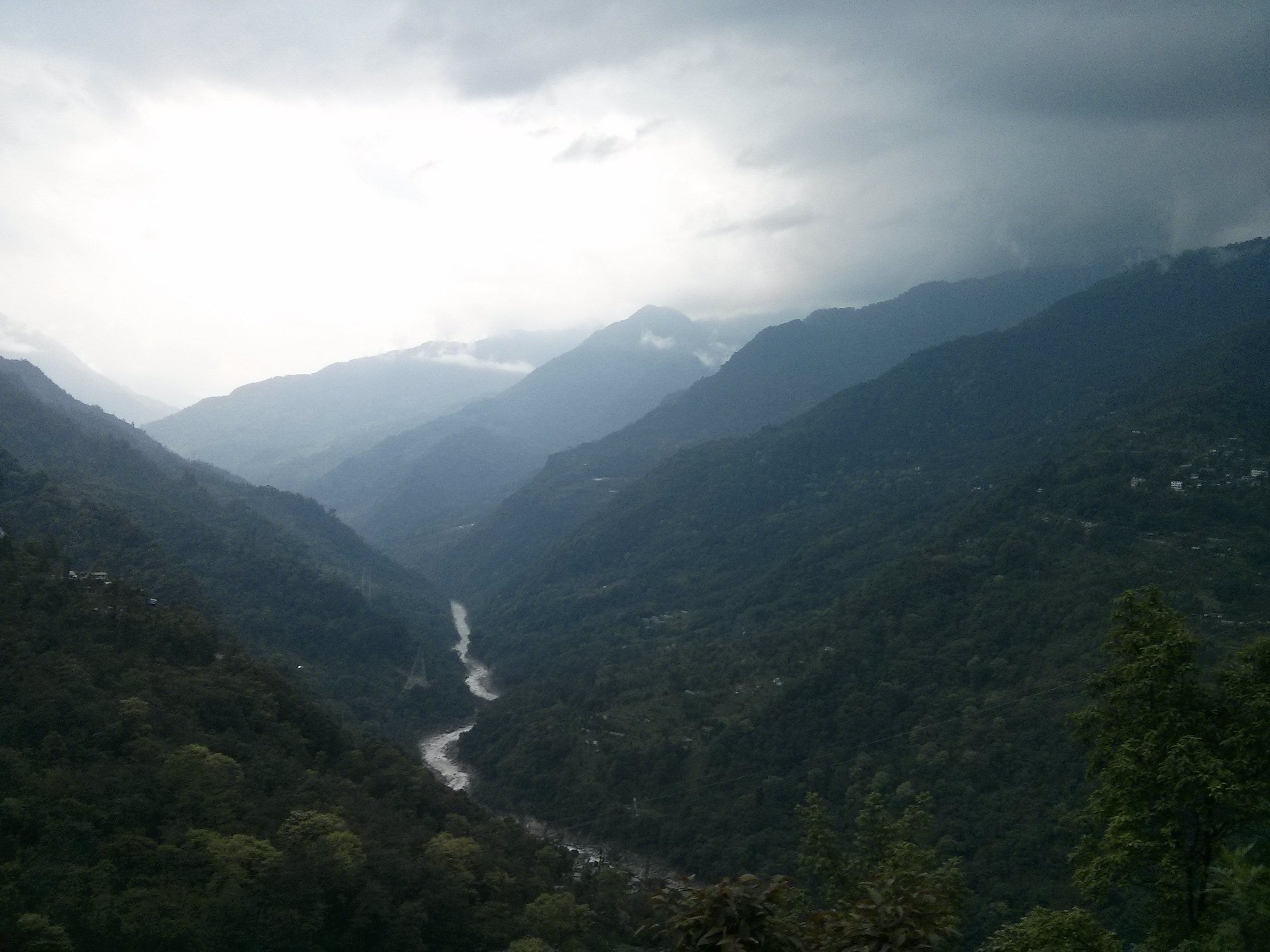 The valley of the river Teesta in Sikkim